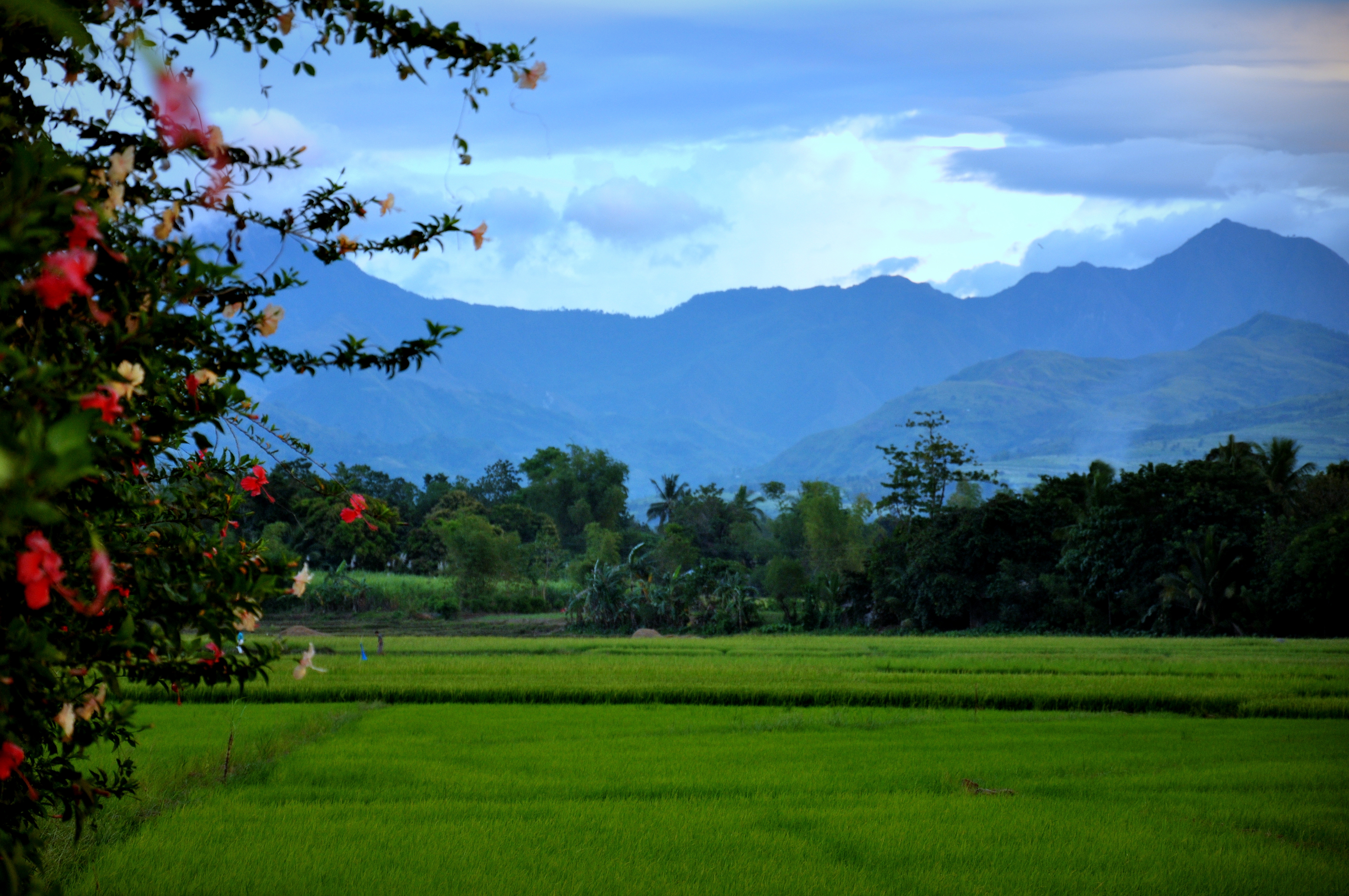 View of ricefields at nearby and the Mabinay Mountain range at a distant.